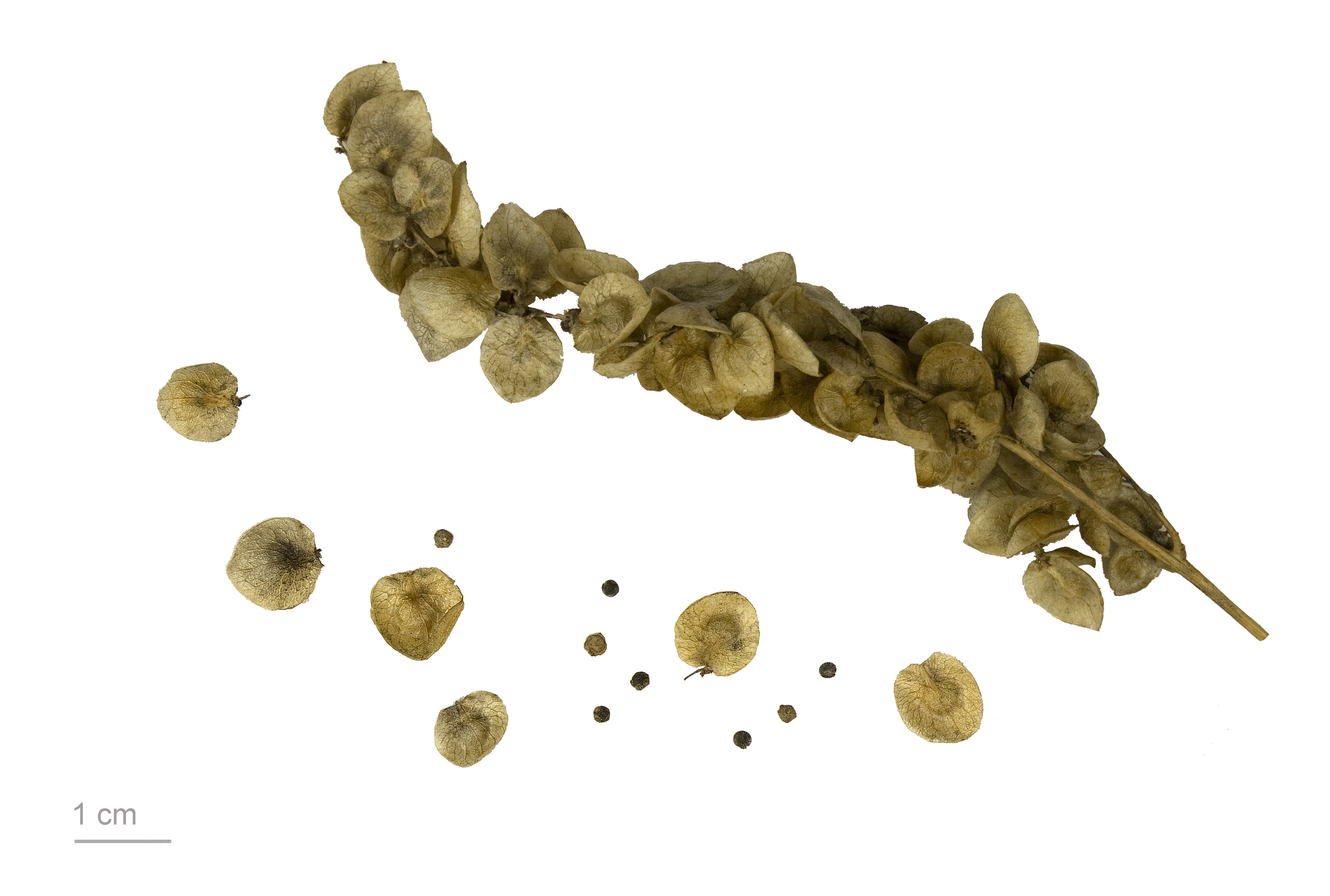 Garden Orache , fruits and seeds